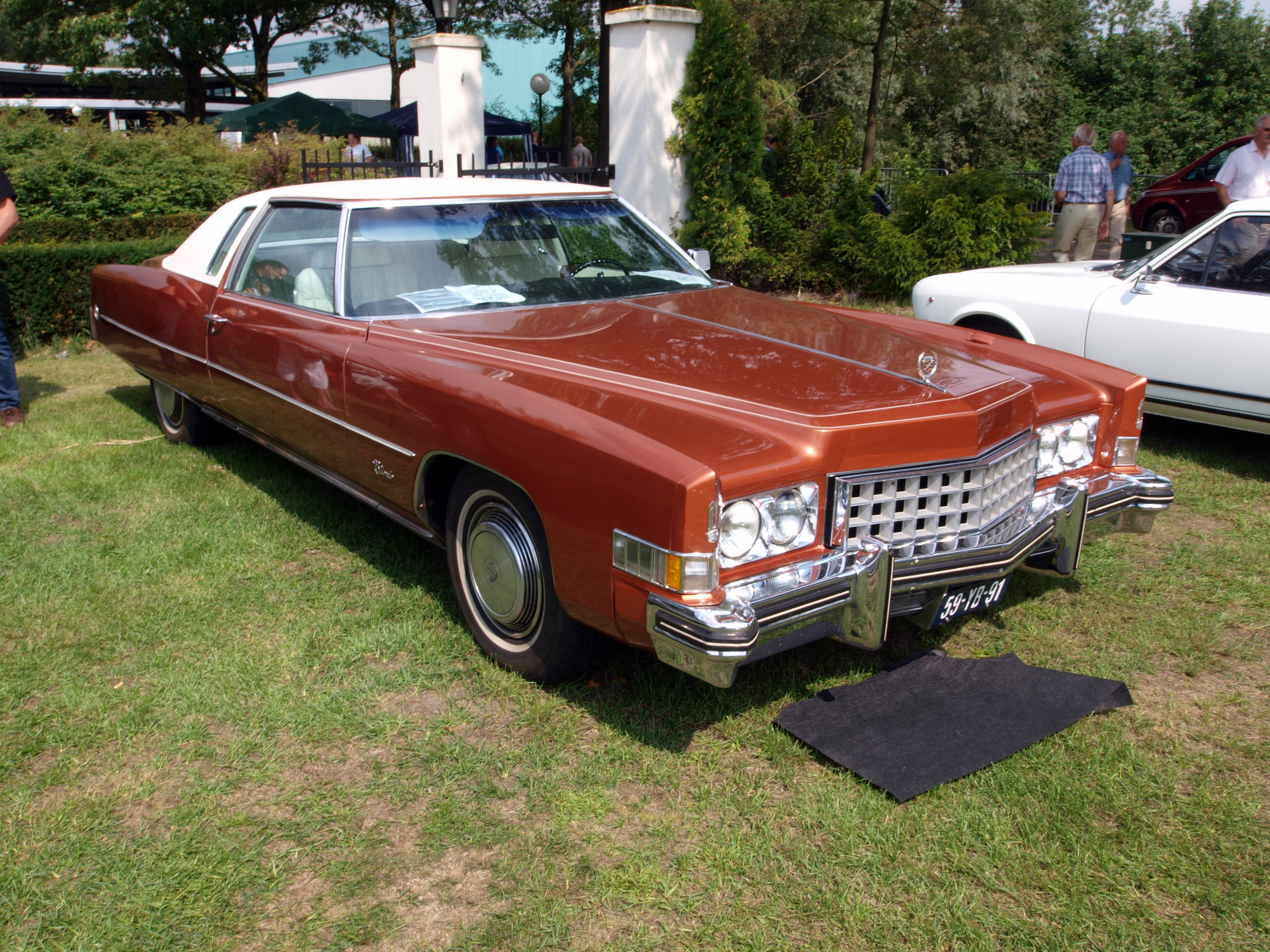 Photographed at the 2010 Autotron Classic car meeting, Rosmalen, The Netherlands. OLYMPUS DIGITAL CAMERA